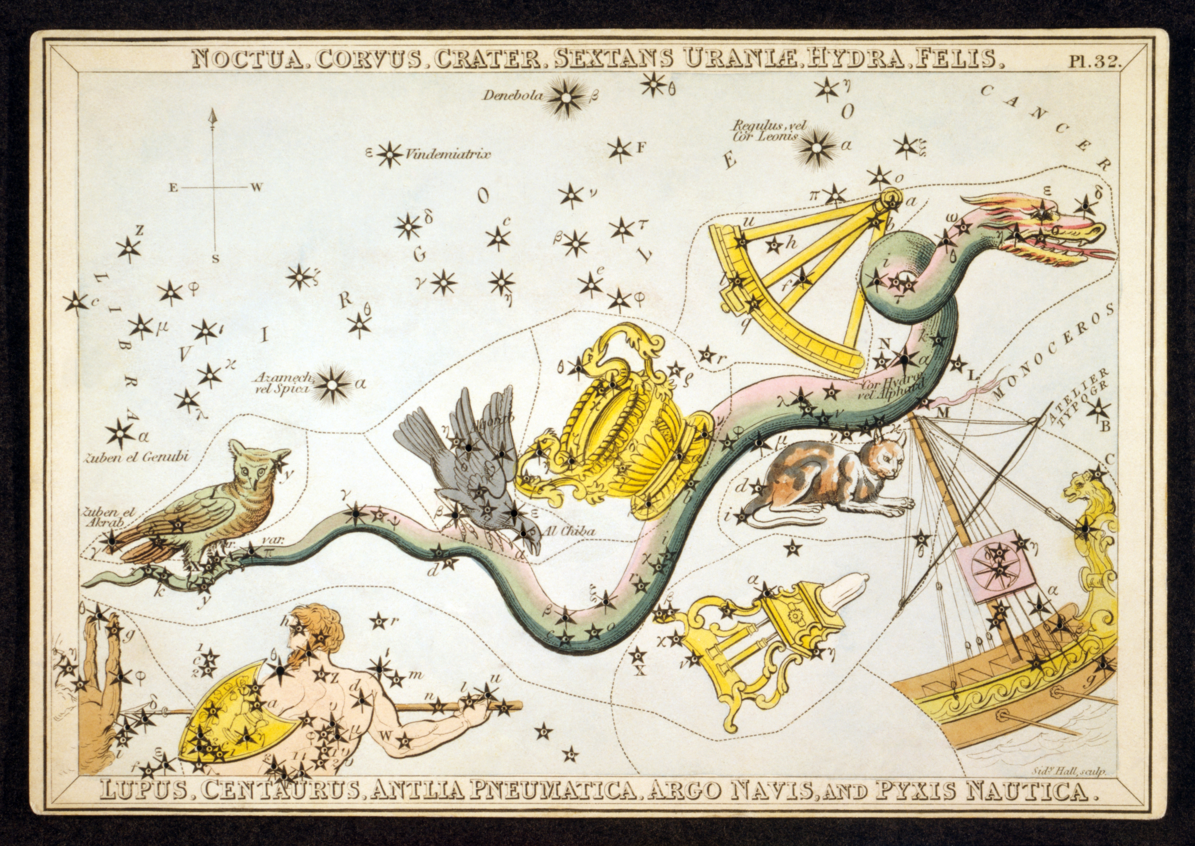 "Noctua, Corvus, Crater, Sextans Uraniæ, Hydra, Felis, Lupus, Centaurus, Antlia Pneumatica, Argo Navis, and Pyxis Nautica", plate 32 in Urania's Mirror, a set of celestial cards accompanied by A familiar treatise on astronomy ... by Jehoshaphat Aspin. London. Astronomical chart, 1 print on layered paper board : etching, hand-colored.